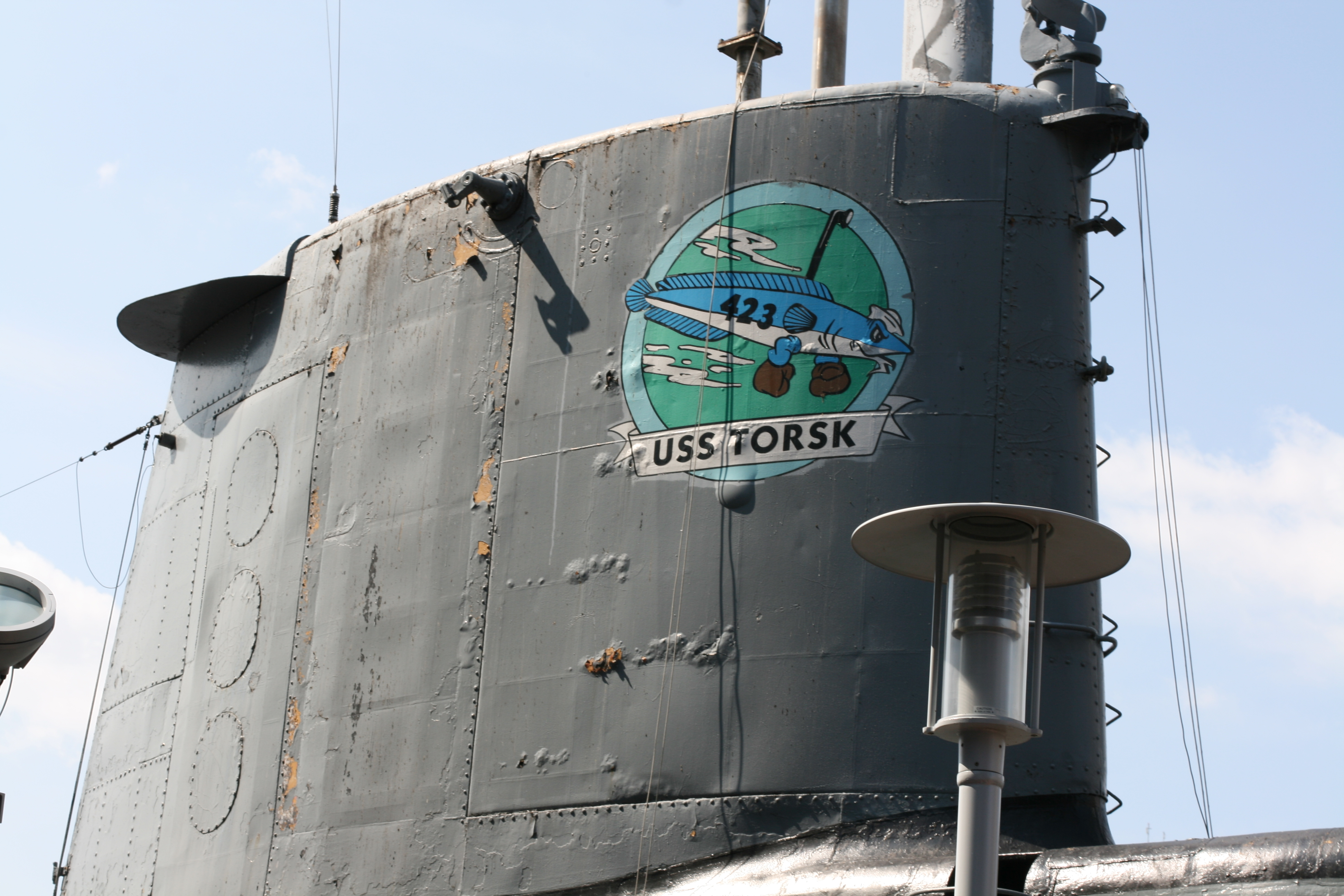 Starboard view of Side emblem and sail of the USS Torsk